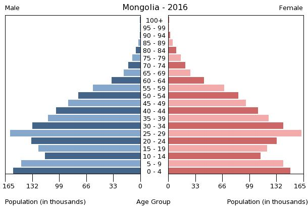 A population pyramid illustrates the age and sex structure of a country's population and may provide insights about political and social stability, as well as economic development. The population is distributed along the horizontal axis, with males shown on the left and females on the right. The male and female populations are broken down into 5-year age groups represented as horizontal bars along the vertical axis, with the youngest age groups at the bottom and the oldest at the top. The shape of the population pyramid gradually evolves over time based on fertility, mortality, and international migration trends.